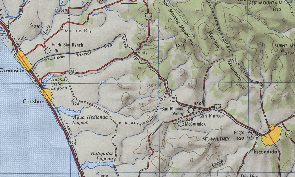 Taken from specifically cropped from Santa Ana 1947 (7.3 MB), an electronic copy of a 1947 United States Geological Survey map.